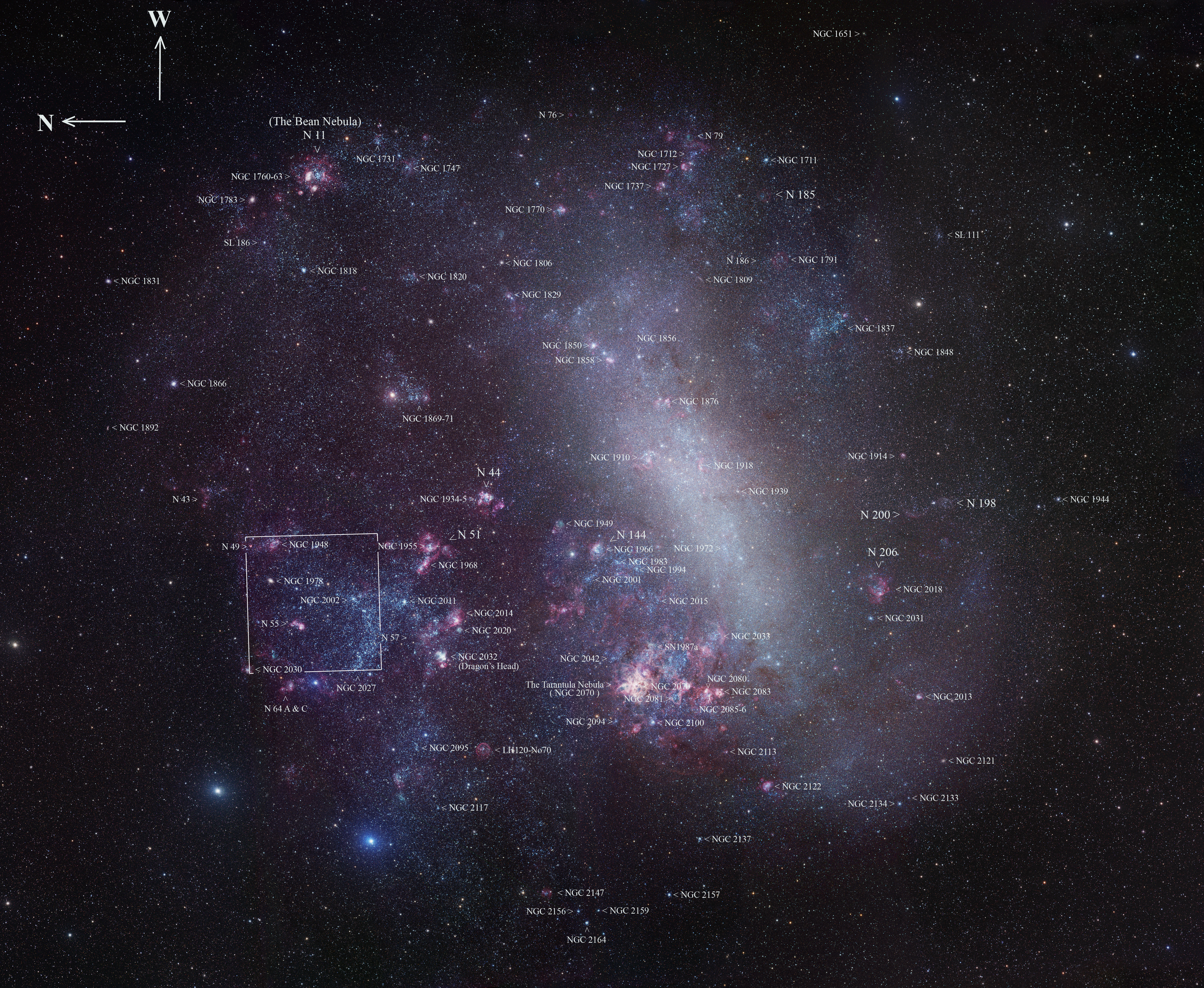 This image shows the entire Large Magellanic Cloud, with some of the brightest objects marked. The field of the new MPG/ESO 2.2-metre telescope image is indicated with an outline. The field of view is about ten degrees across.